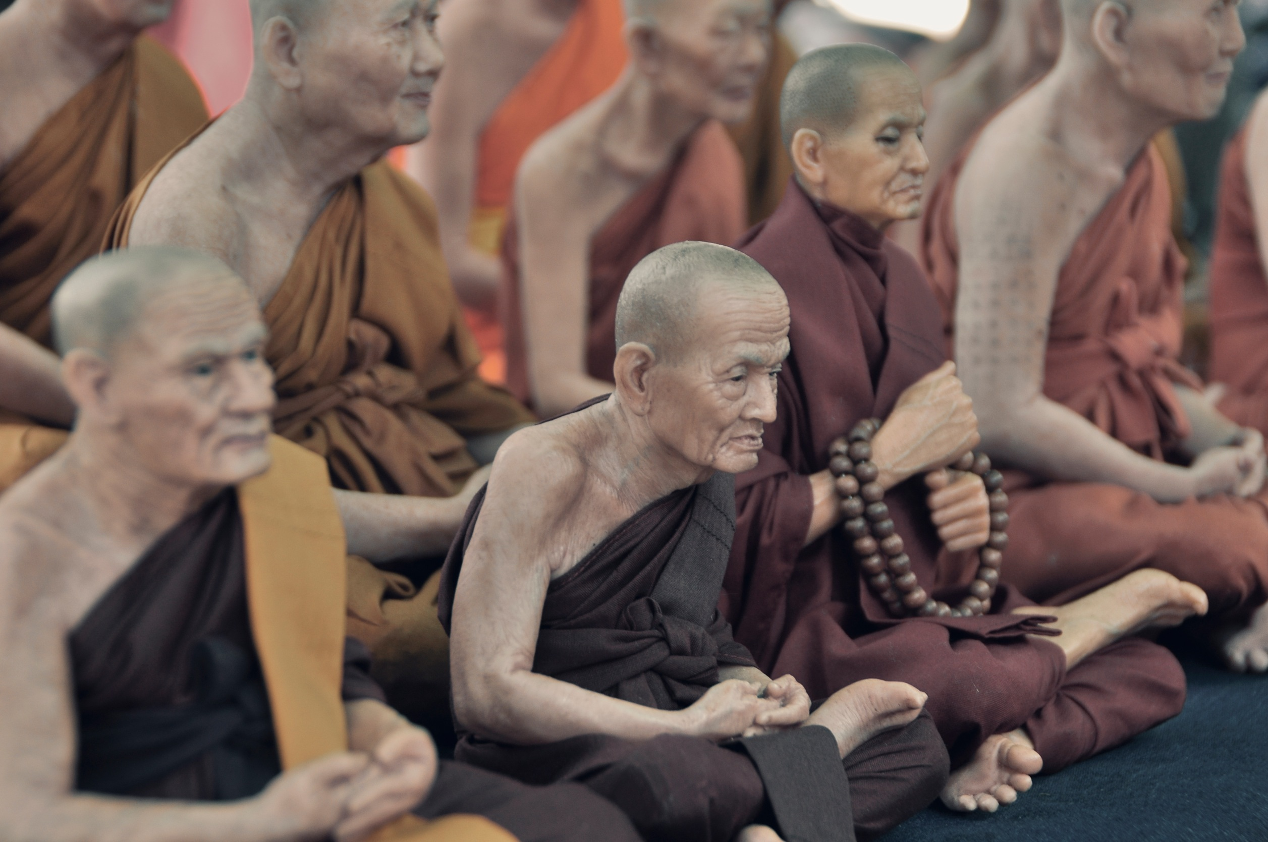 Old age monks praying